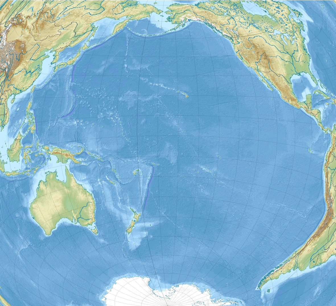 Relief location map of Pacific_Ocean. Projection: Lambert azimuthal equal-area projection. Area of interest: N: 60.0° N S: -80.0° N W: -260.0° E E: -70.0° E Projection center: NS: -10.0° N WE: -165.0° E GMT projection: -JA-165.0/-10.0/180/19.998266666666666c GMT region: -R-320.2519138145009/-12.459450078533589/-5.473602099069988/26.40516525873812r GMT region for grdcut: -R-325.0/-90.0/-5.0/74.0r Relief: SRTM30plus. Made with Natural Earth. Free vector and raster map data @ .